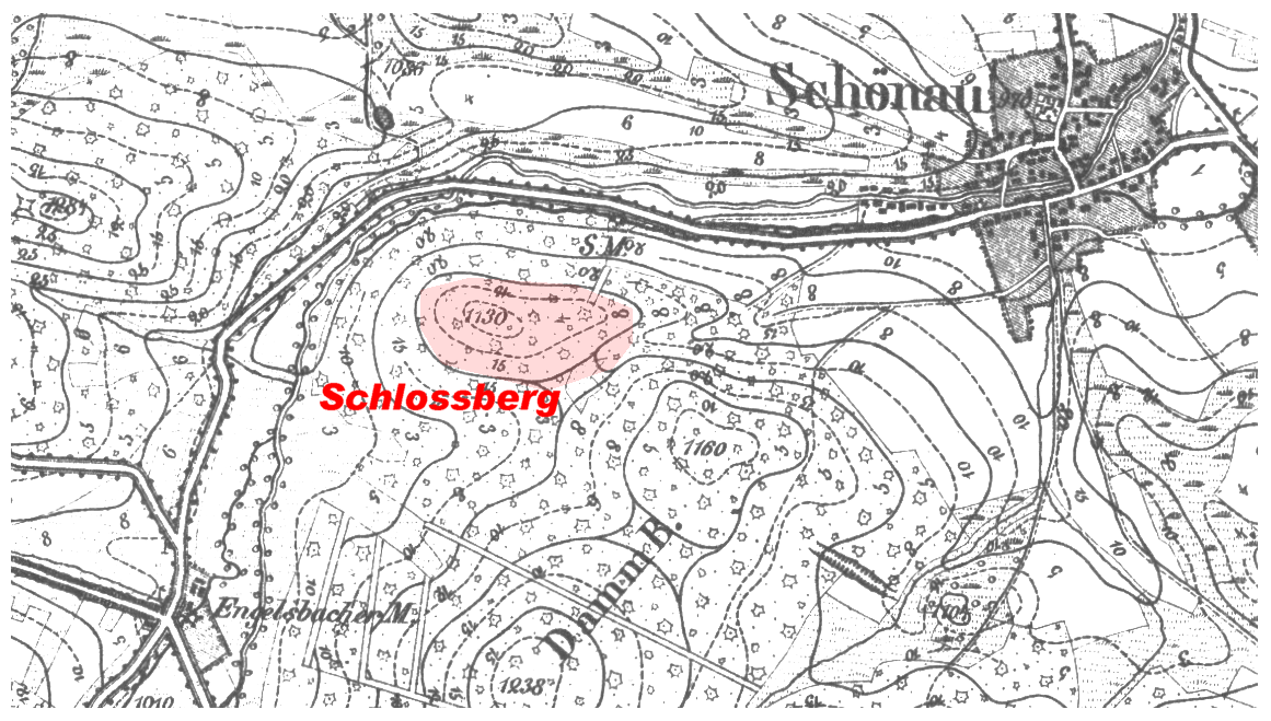 A map of Friedrichroda with the location Tannenburg castle.